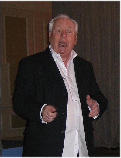 English film director Michael Winner.